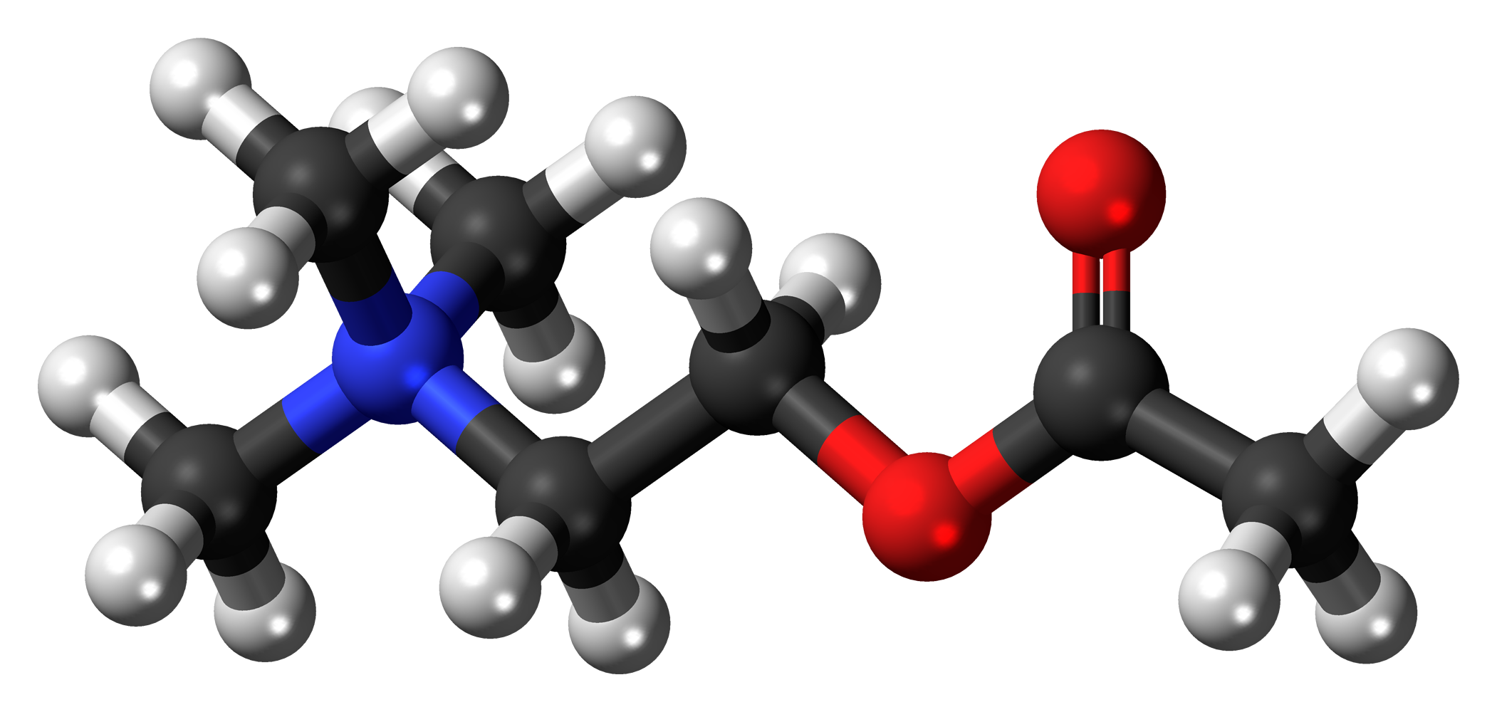 Ball-and-stick model of the acetylcholine cation, a neurotransmitter in many organisms including humans. The nitrogen atom has a positive charge. Colour code: Carbon, C: black Hydrogen, H: white Oxygen, O: red Nitrogen, N: blue